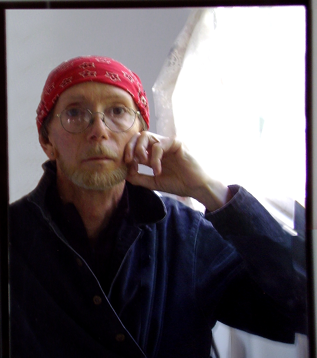 photograph of Roger Penney, also known as Roger Becket, singer,songwriter,electric autoharpist, pioneer of psychedelic folk and psychedelic rock, cofounder of Bermuda Triangle Band with Wendy Penney